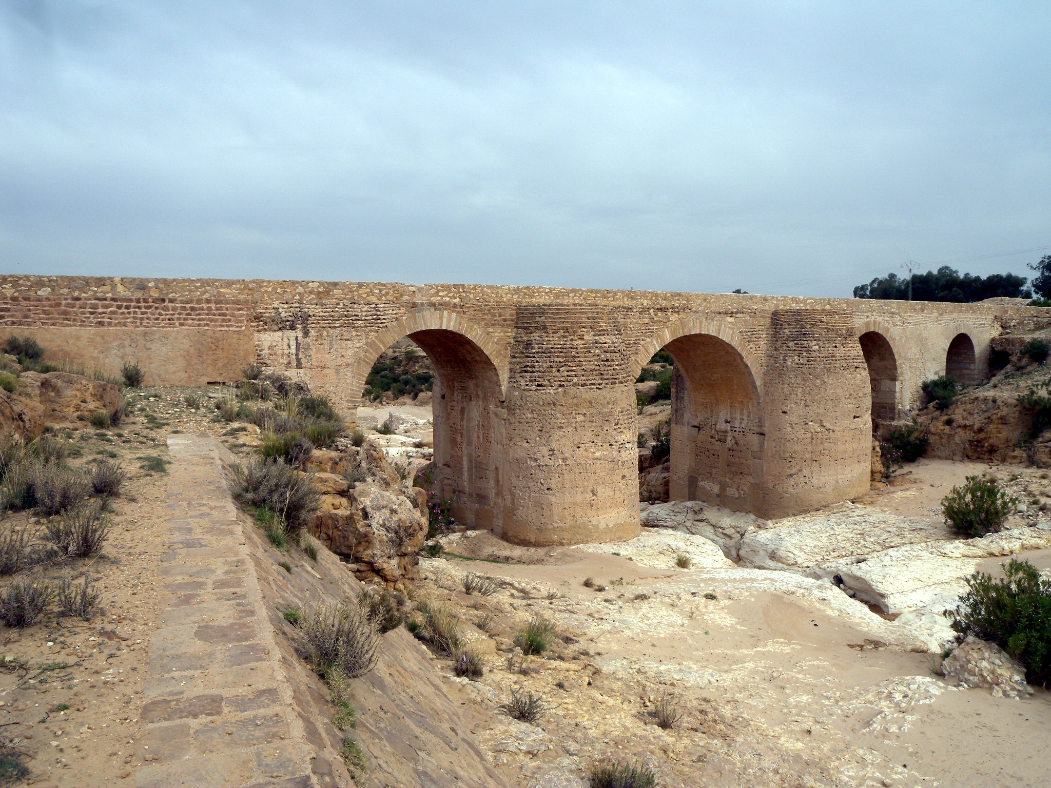 Bridge for the aqueduct of Sbeitla (Tunisie)